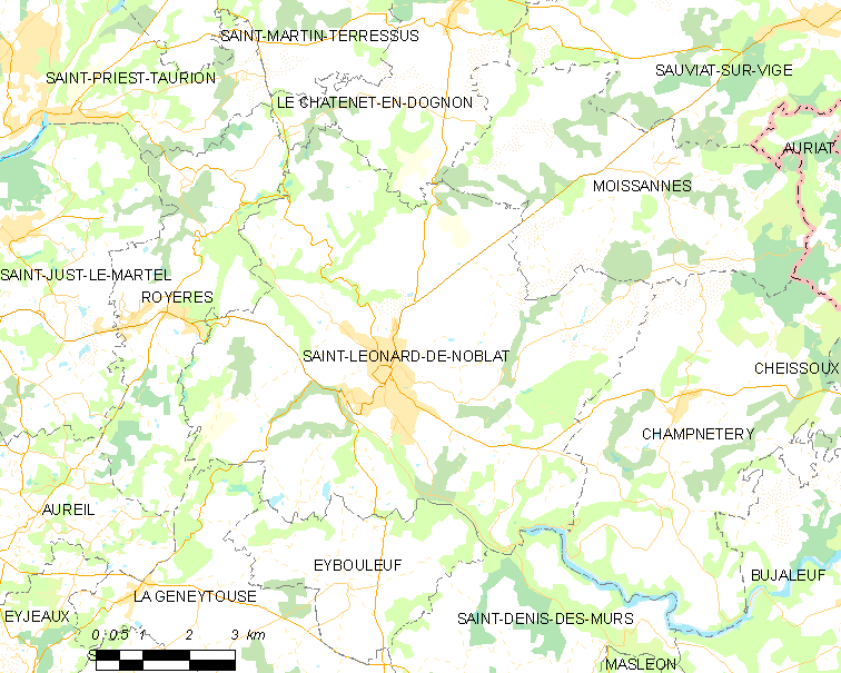 Map of French municipality Saint-Léonard-de-Noblat